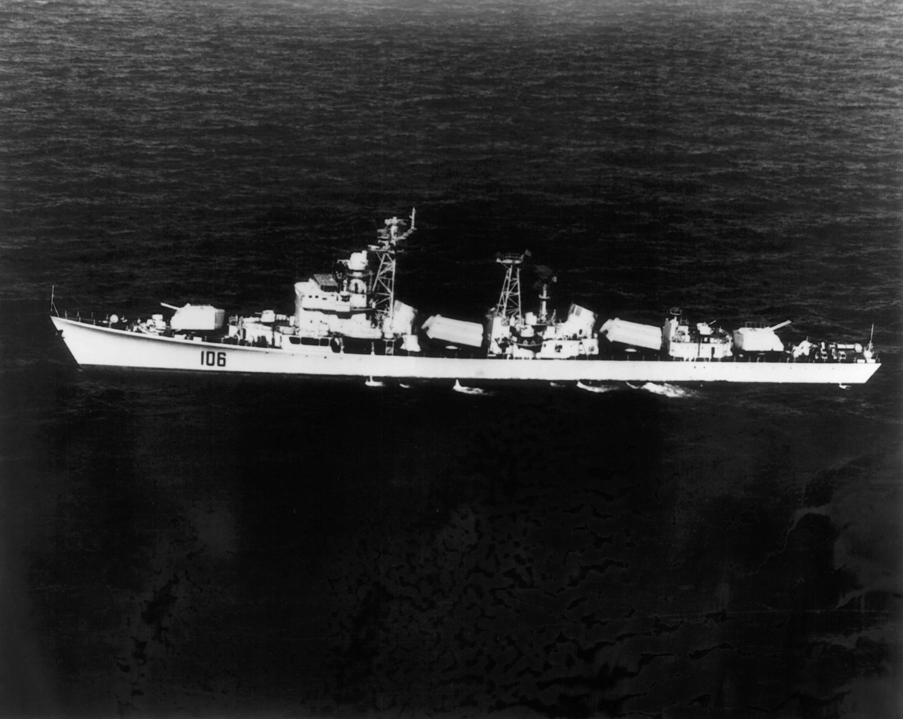 A port beam view of the Chinese Navy Luda class guided missile destroyer XIAN (DDG 106).